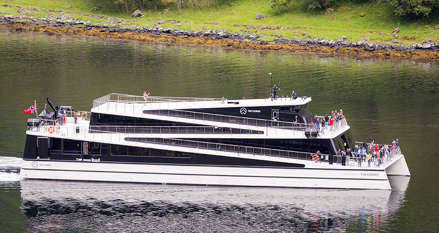 "Vision of the Fjords" in the Nærøyfjord, enroute from Flåm with passengers to Gudvangen.